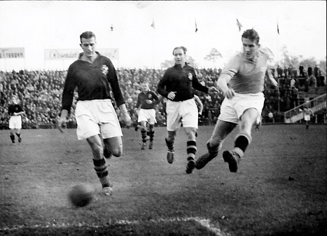 Stellan Nilsson scores for Malmö FF 1945